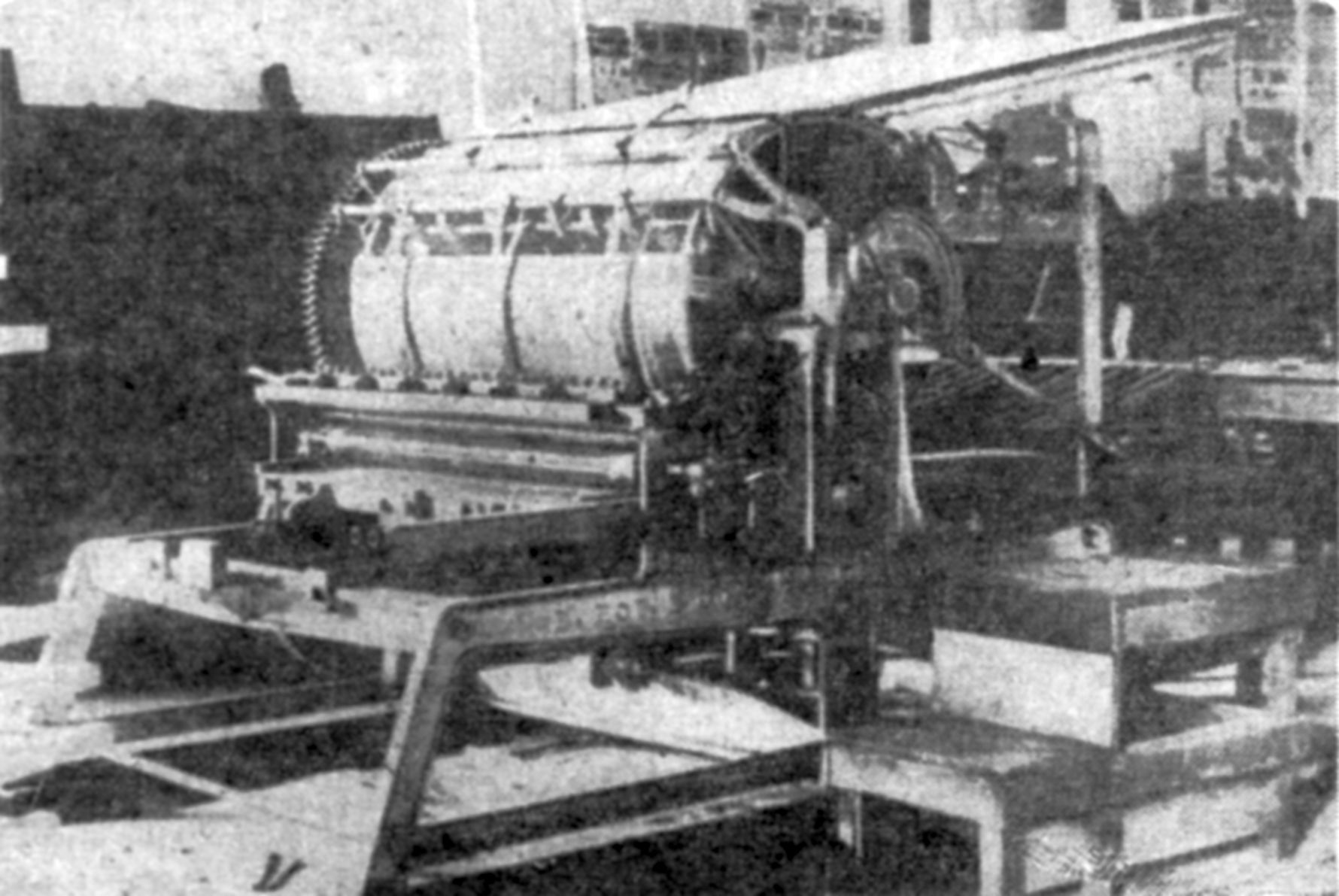 Full page of the Oregonian newspaper discussing editor Harvey Scott (recently deceased) and the first printing presses